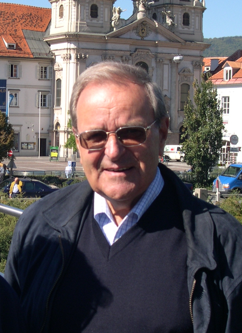 Fritz Csoklich, austrian journalist, chief editor of "Kleine Zeitung" in Graz 1960-1994